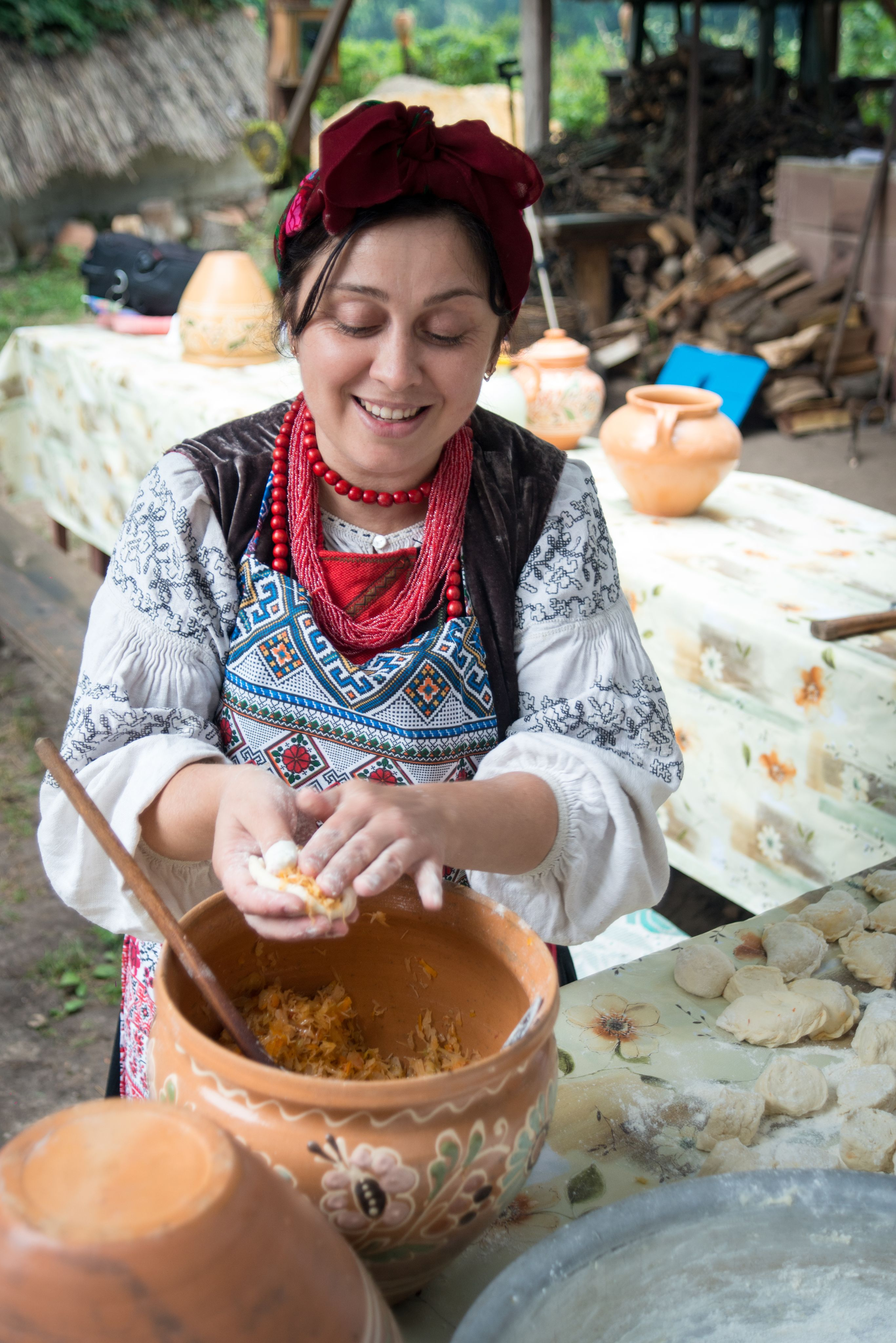 The process of cooking dumplings. Wikiexpedition to Fest "Borschyk in clay pot". Poltava region